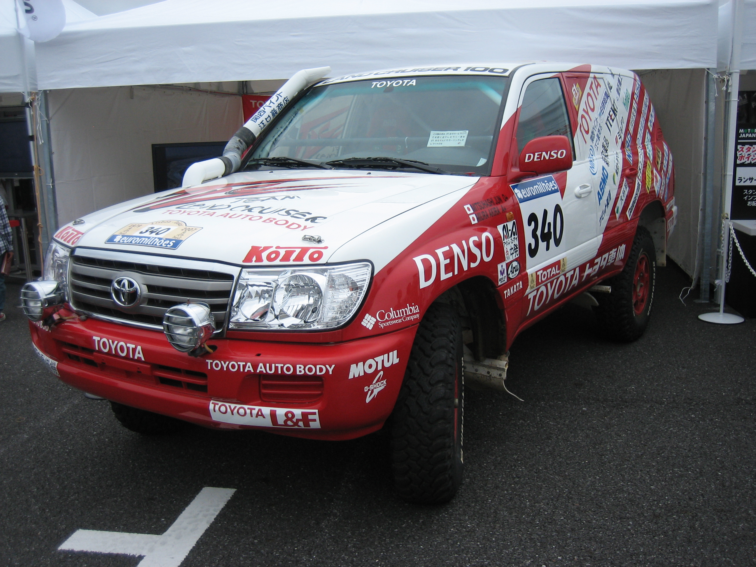 Toyota Land Cruiser